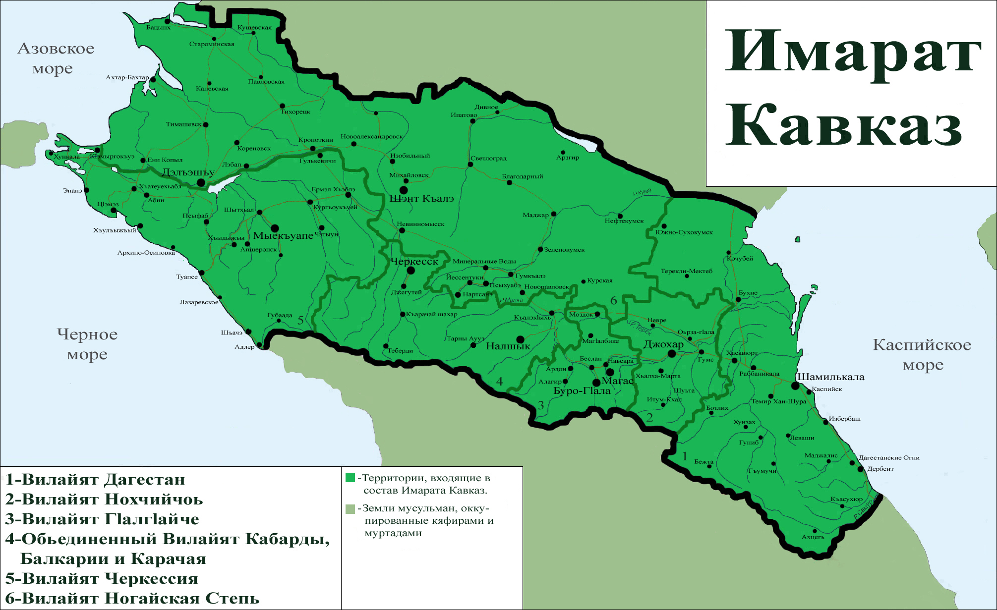 Areas claimed by the Caucasian Emirate